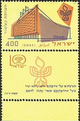 Israel's Tenth anniversary exhibition